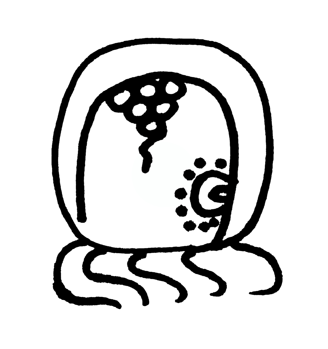 Maya logogramm TUUN ("stone") with a fonetic complement -ni.